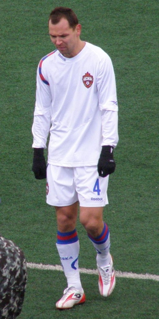 Sergei Ignashevich in action for PFC CSKA Moscow